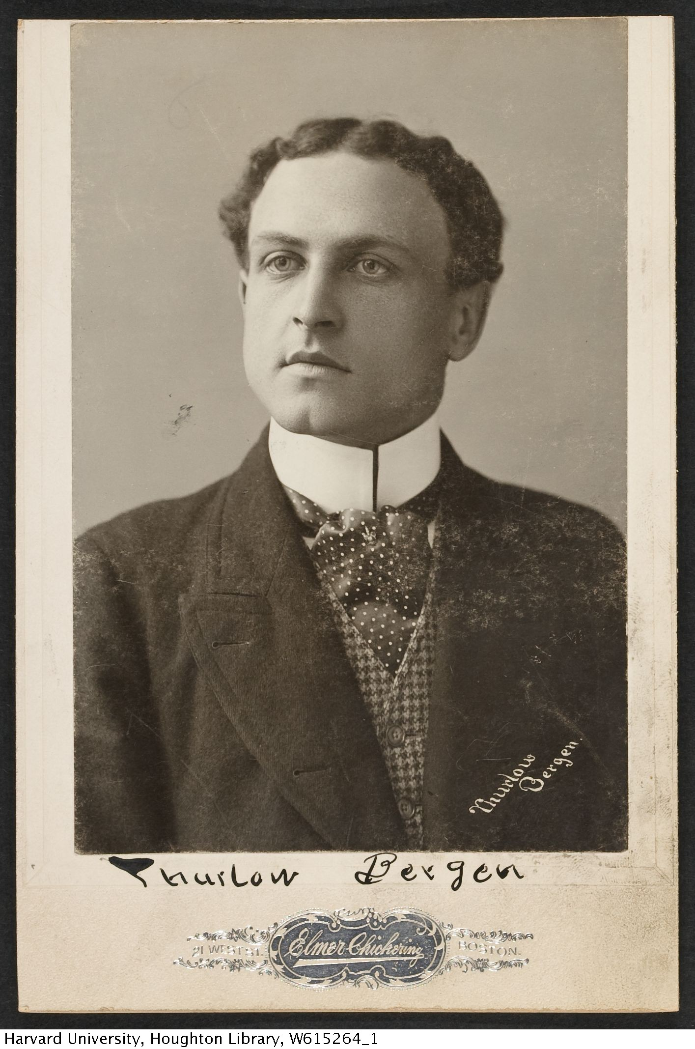 Cabinet card image of American actor Thurlow Bergen. Credited to Elmer Chickering, 21 West Street, Boston, Massachusetts. TCS 1.2361, Harvard Theatre Collection, Harvard University